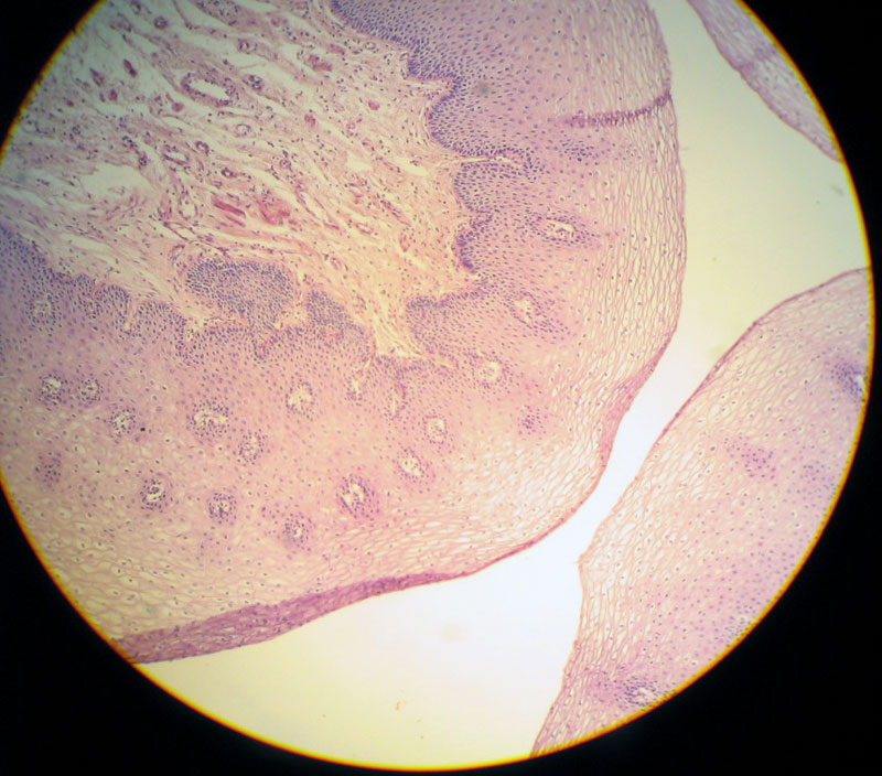 Histologic specimen of esophagial wall. The focus is on lamina epithelialis and lamina propria.